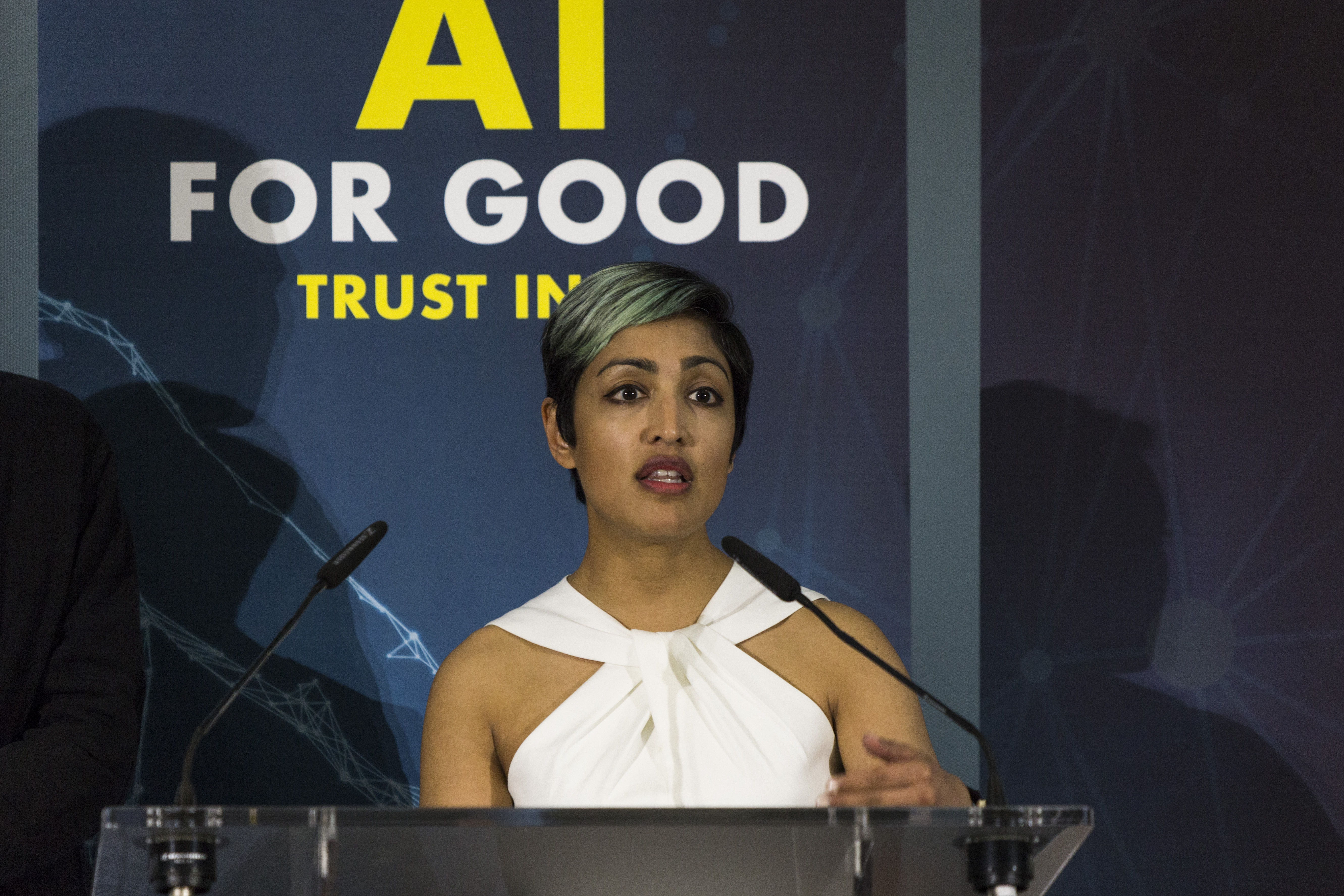 Rumman Chowdhury, Senior Principal of AI, Accenture at the AI for Good Global Summit 2018 15-17 May 2018, Geneva ©ITU/D.Procofieff ITU (International Telecommunication Union)